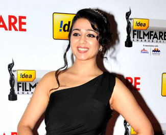 South Indian actress Charmy Kaur at the 60th Filmfare Awards South